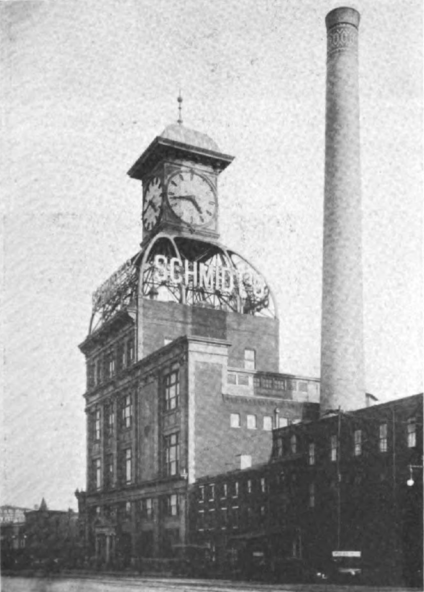 Schmidt's of Philadelphia Brewhouse